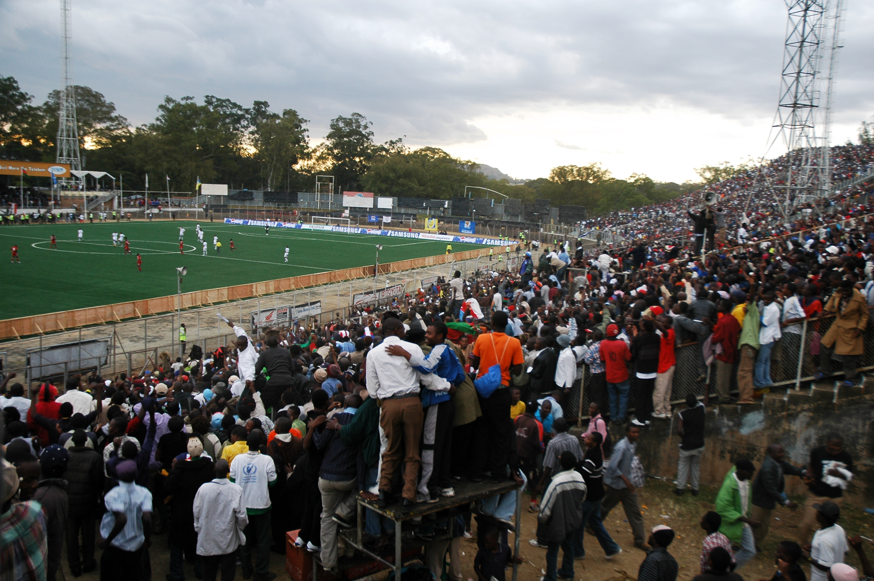 Kamuzu Stadium interior in 2008, Malawi - Egypt